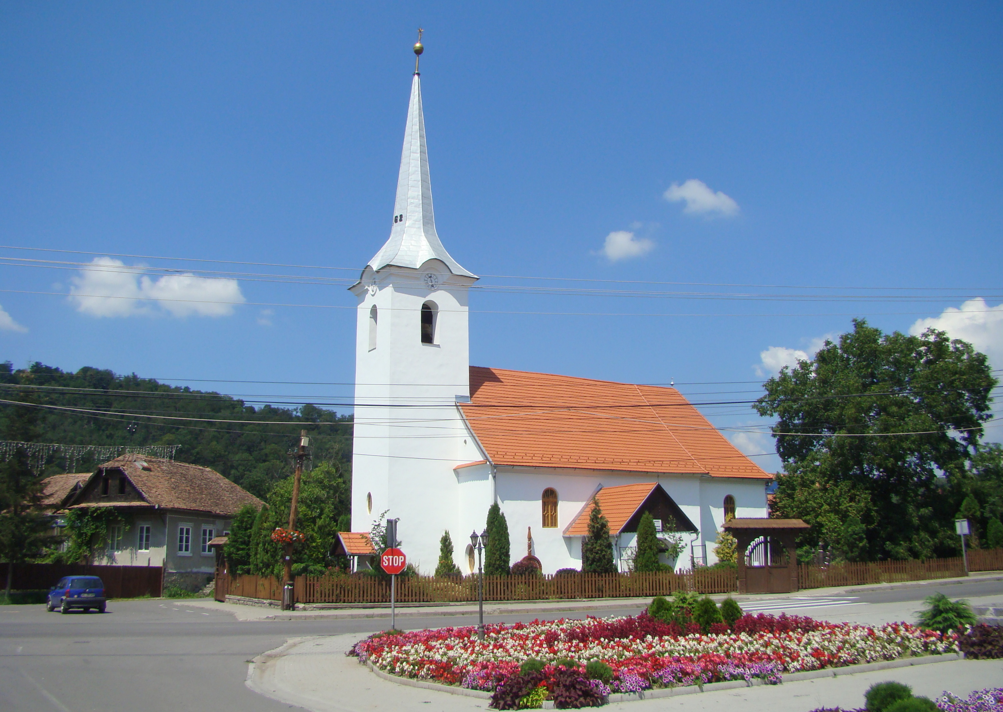 Reformed church in Praid, Harghita county, Romania